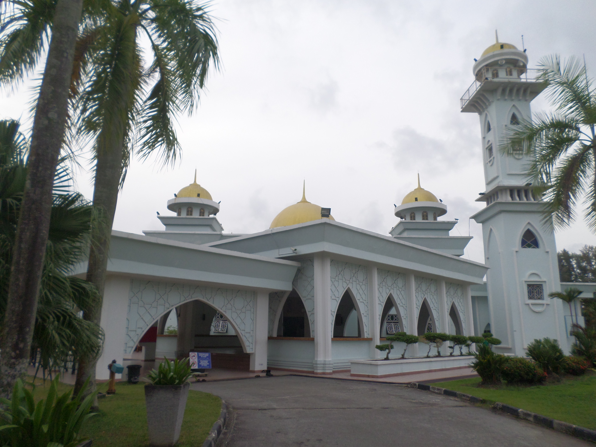 Pasir Gudang Jamek Mosque, Pasir Gudang, Johor Bahru, Johor, Malaysia